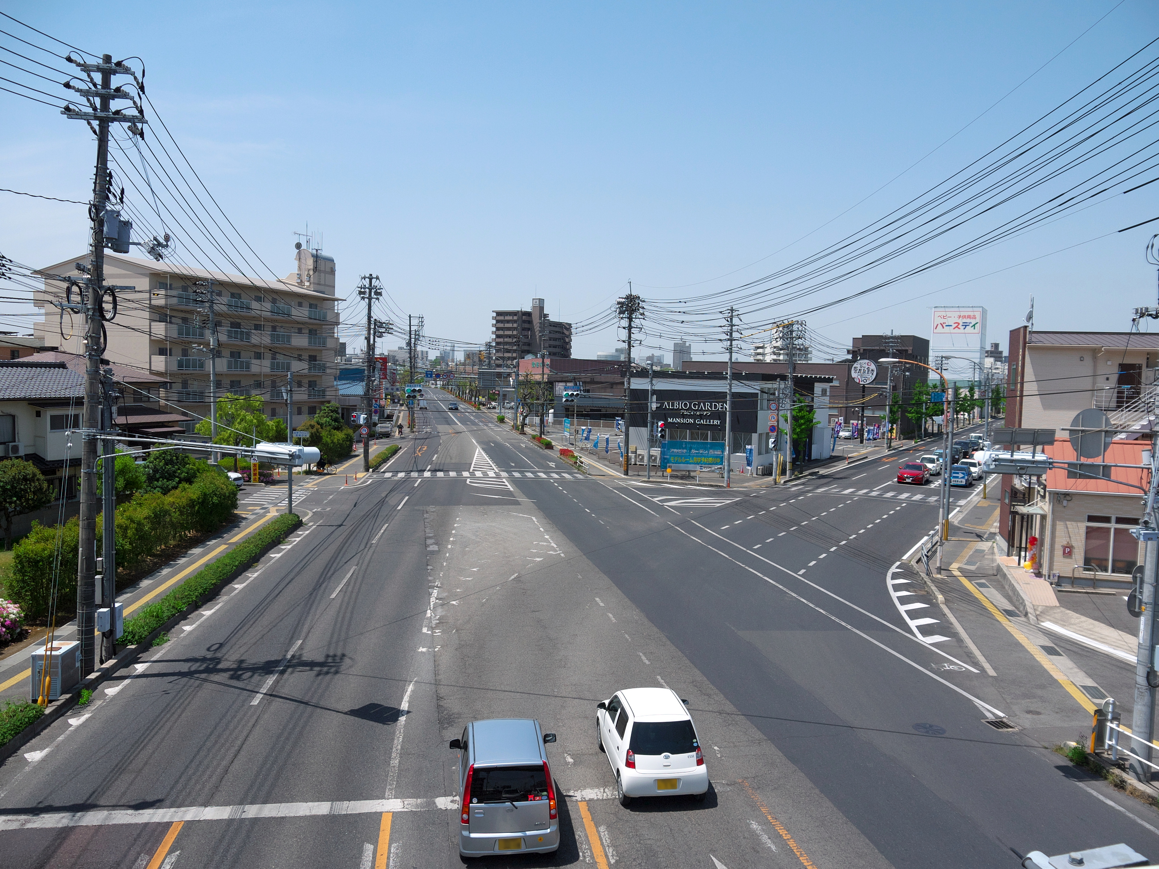 Haraoshima Intersection in Haraoshima, Naka-ku, Okayama